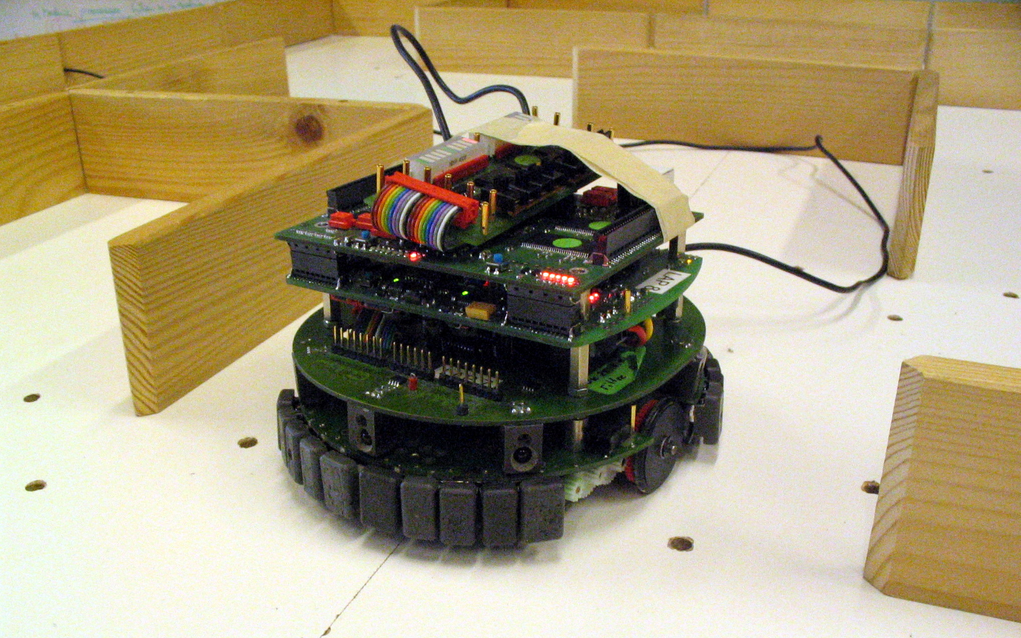 Blind "Cyclope" in a maze at EPFL / Switzerland. Moving with Braitenberg-style activation rules and a small FSM. The Cyclope is a low cost didactic robot, with a nice set of sensors for doing students labs on assembly language and sensor drivers. The version on the picture is an enhanced Cycloped based on the "RokEPXA" card developped at EPFL. The FPGA is an Altera EPXA1. RokEPXA is a minimal board using A-BUS compatible power-supply. RokEPXA replaces old main boards RokHC12 and Rok68 of the robot Cyclope and opens a new era. Altera EPXA integreted circuit contains an "hardcore" ARM922T processor system and a FPGA. This board can not only be used with the robot Cyclope but in many others applications. Now, it's possible to build a multi-processor system using Altera NIOS "softcore" processor system in FPGA, for example.